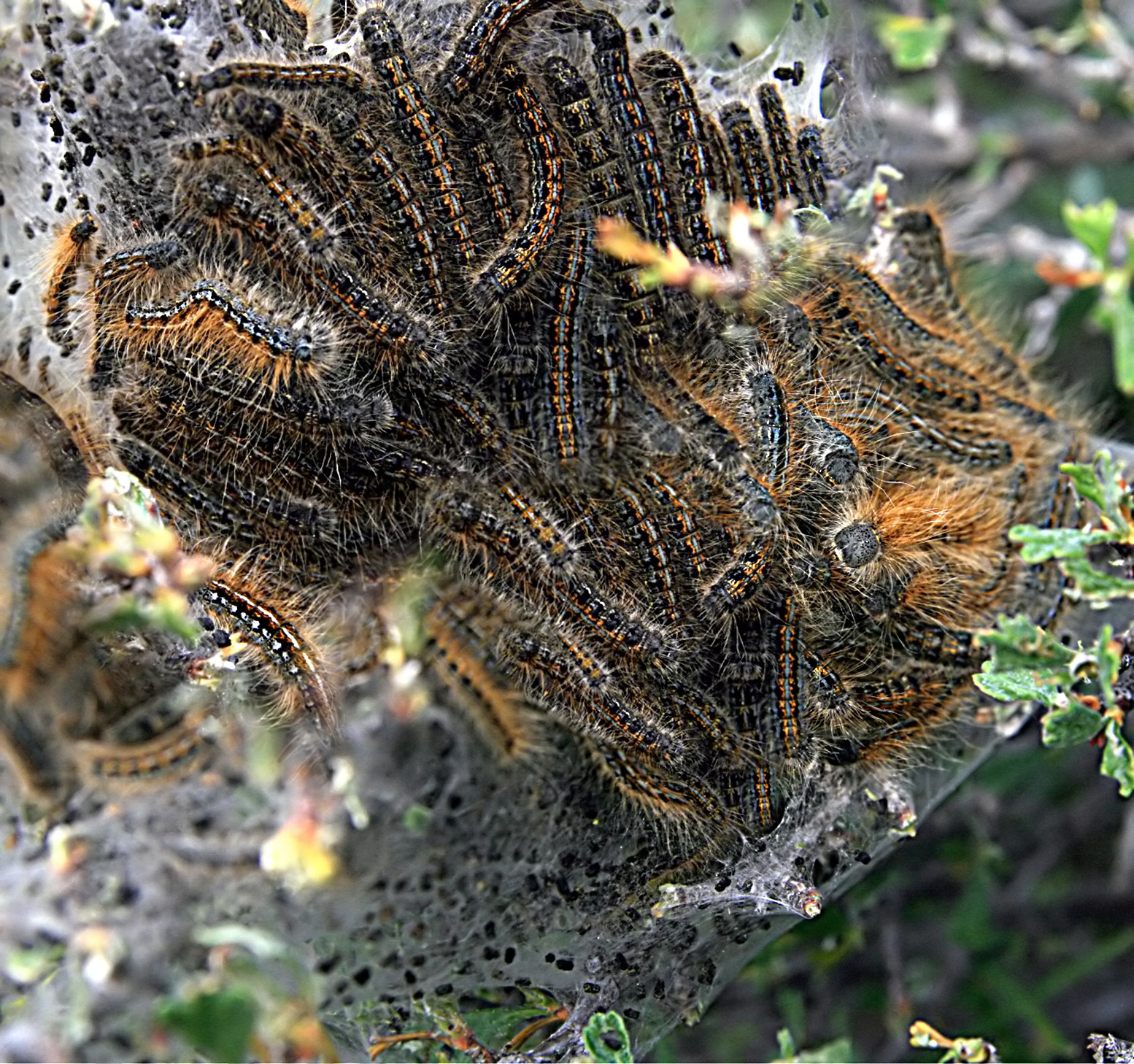 Western tent caterpillar, Malacosoma californicum